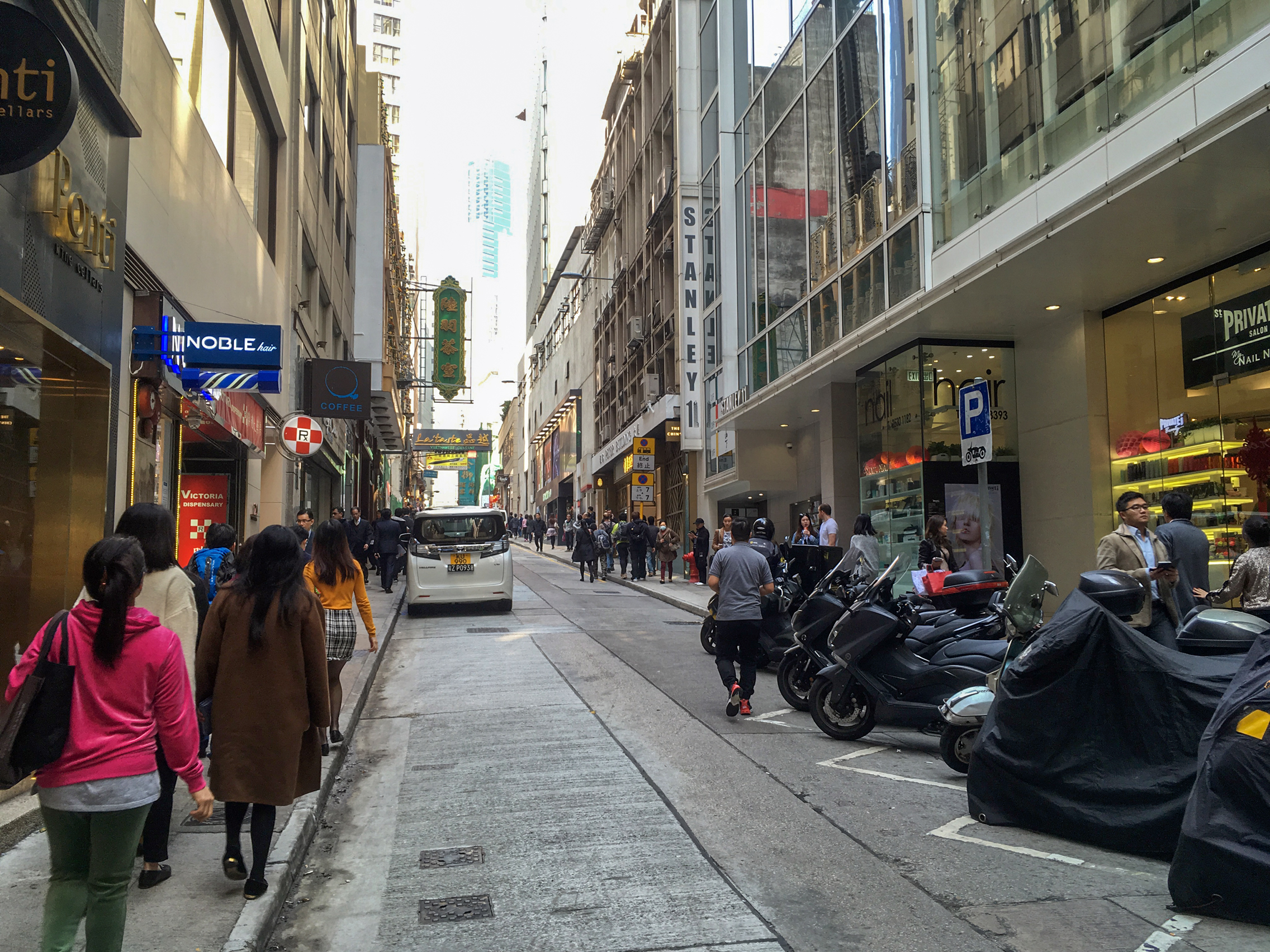 Stanley Street